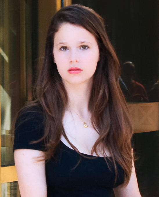 Actress Rachel Korine at the 2009 Toronto International Film Festival.